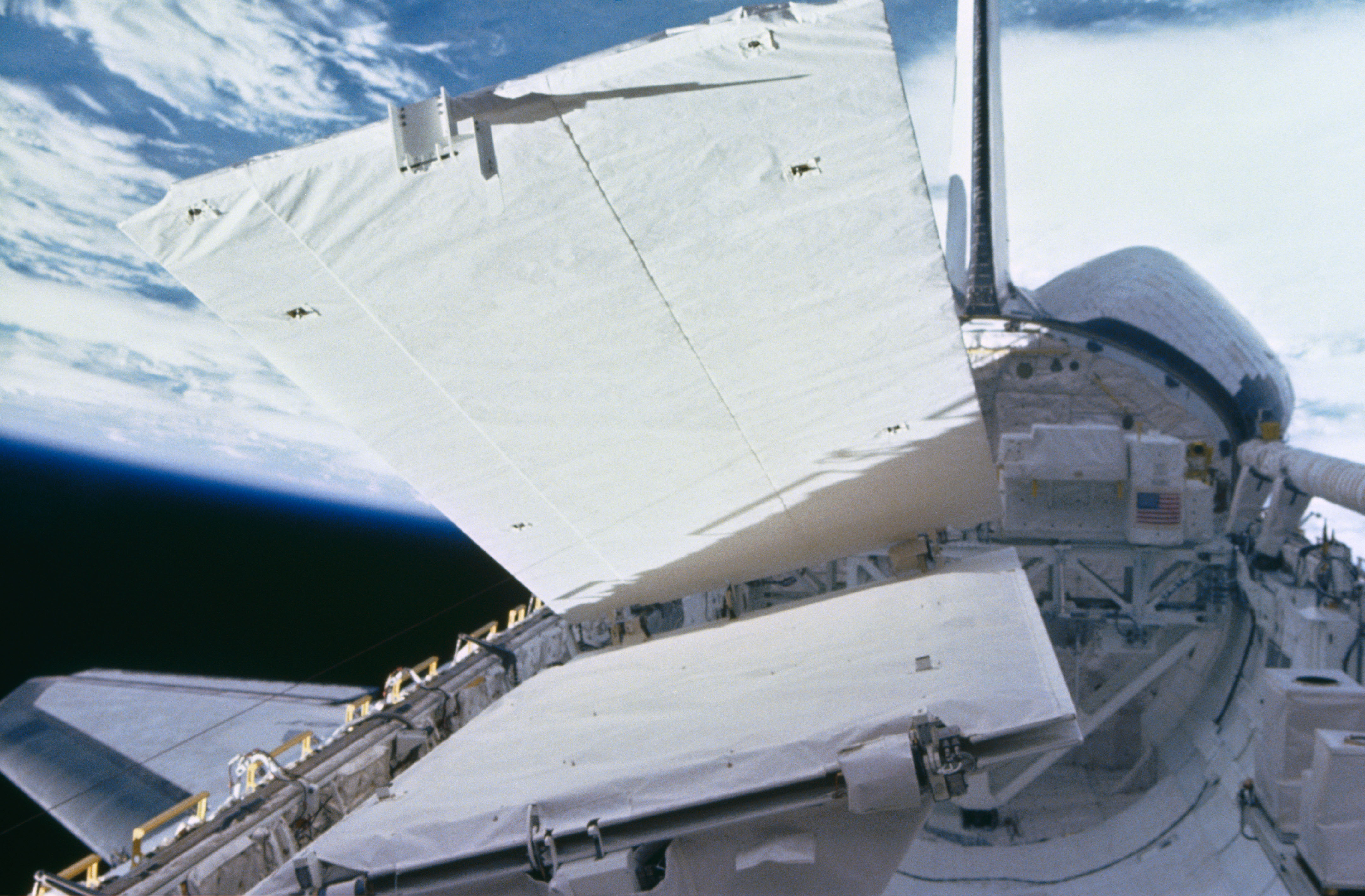 View of the SIR-B antenna being deployed during STS 41-G. The Challenger's payload bay is open and the remote manipulator system (RMS) arm is in the stowed position at the right of the view.